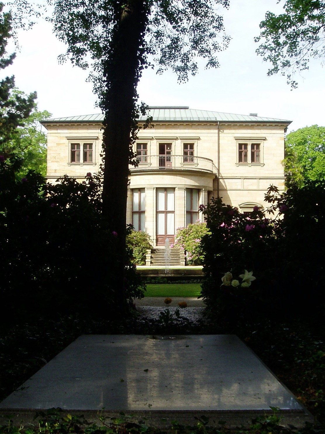 Grave of Richard and Cosima Wagner in the garden of House Wahnfried, 2005